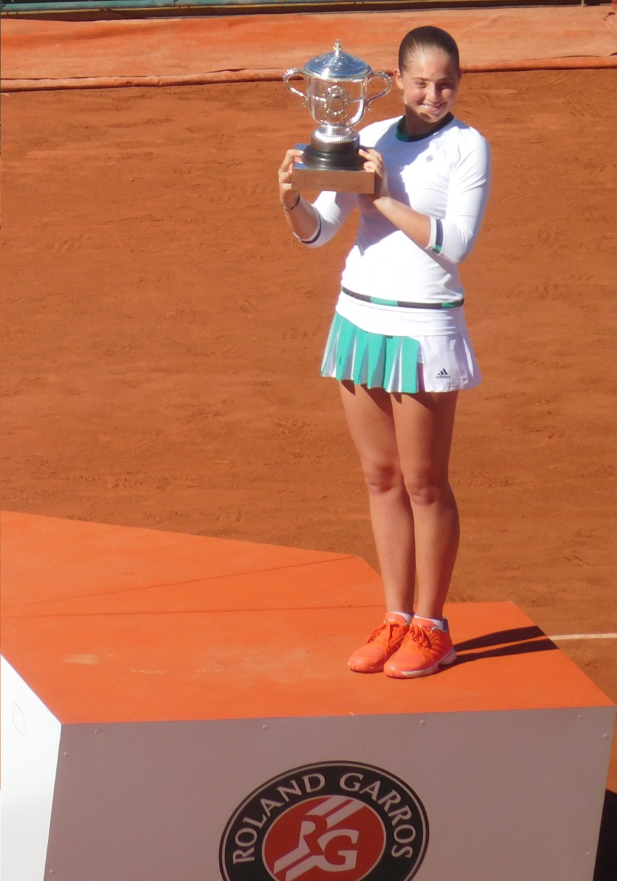 Jelena Ostapenko won Roland Garros 2017